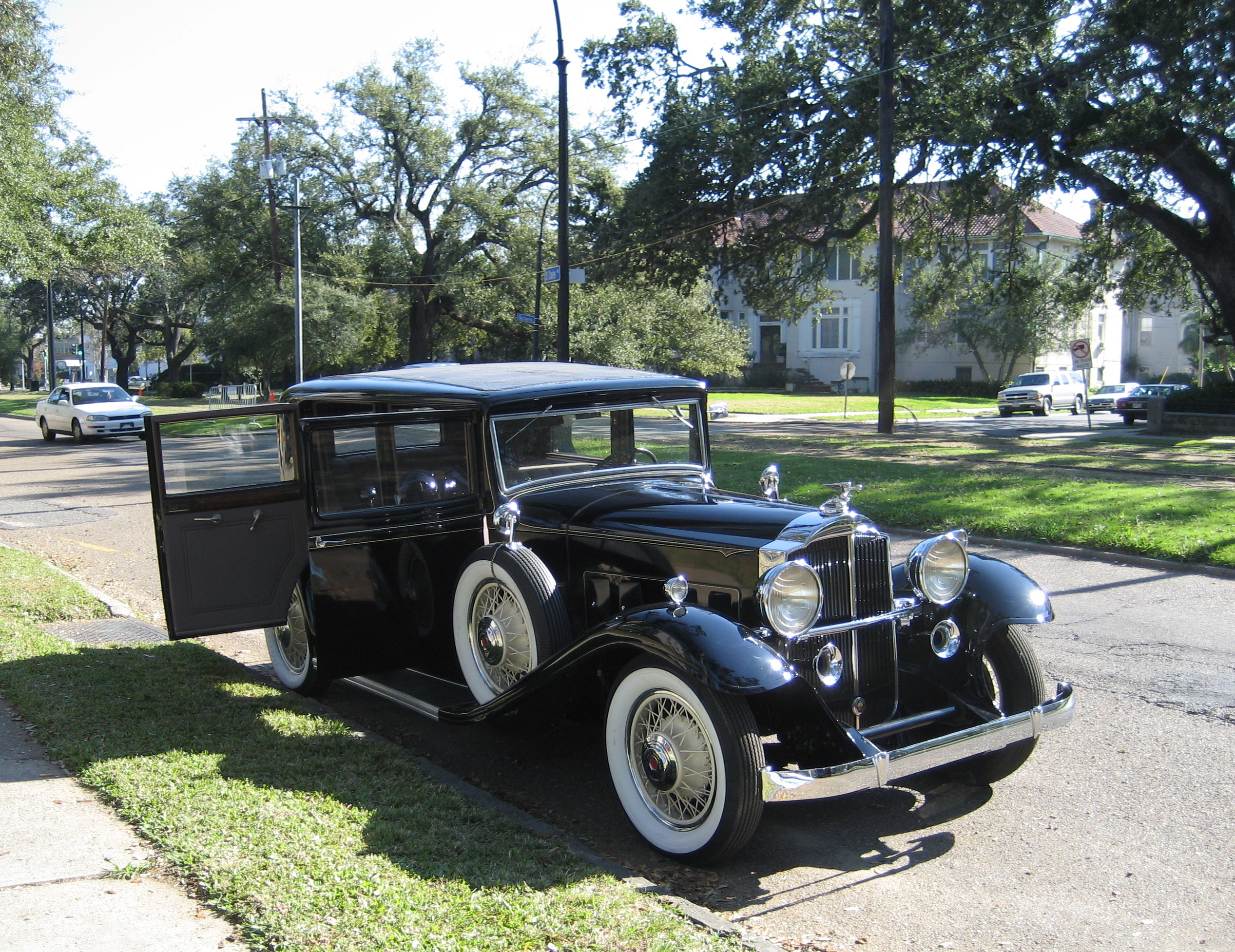 1932 Packard auto on St. Charles Avenue, Uptown New Orleans. Photo by Infrogmation, November 2006